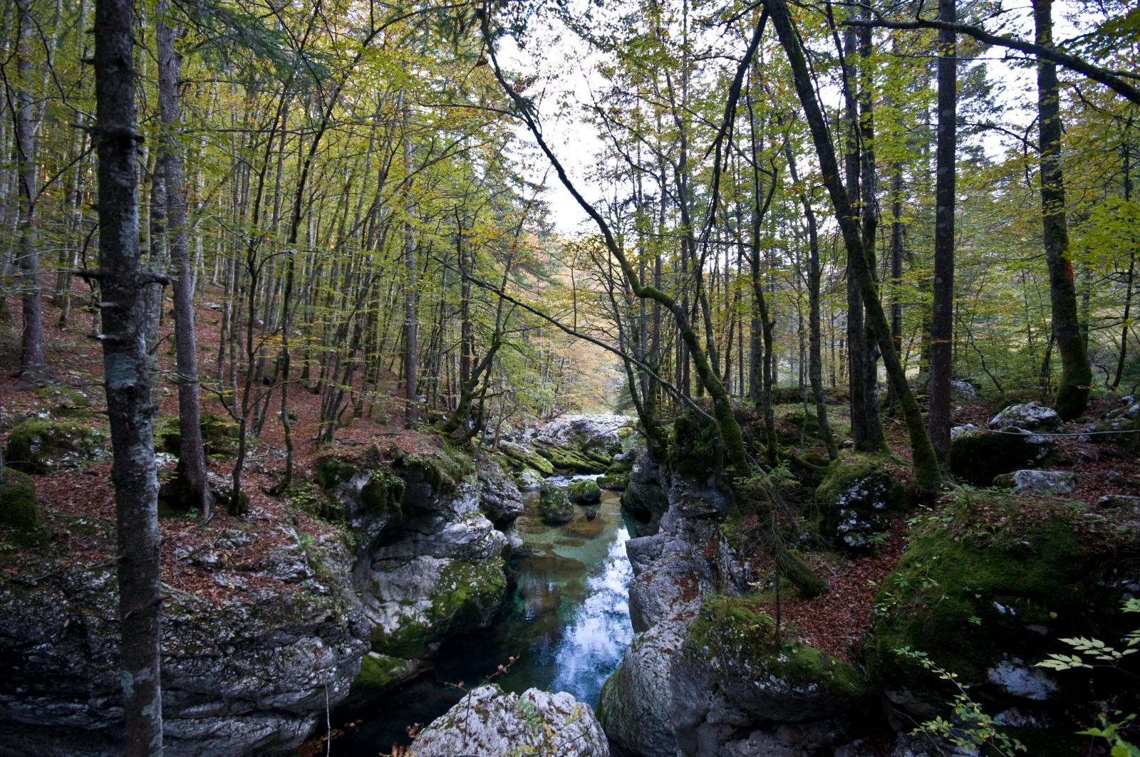 Hiking in forest - Town of Bohinj